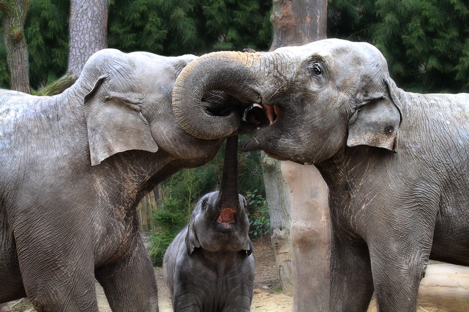 Two elephants had their trunks all tangled up, when the little one came along. Soon the baby started trying to join the 'fight' & by stretching its trunk to the limit, it finally succeeded. So cute to see this :). Shot at Dierenpark Amersfoort, the Netherlands.